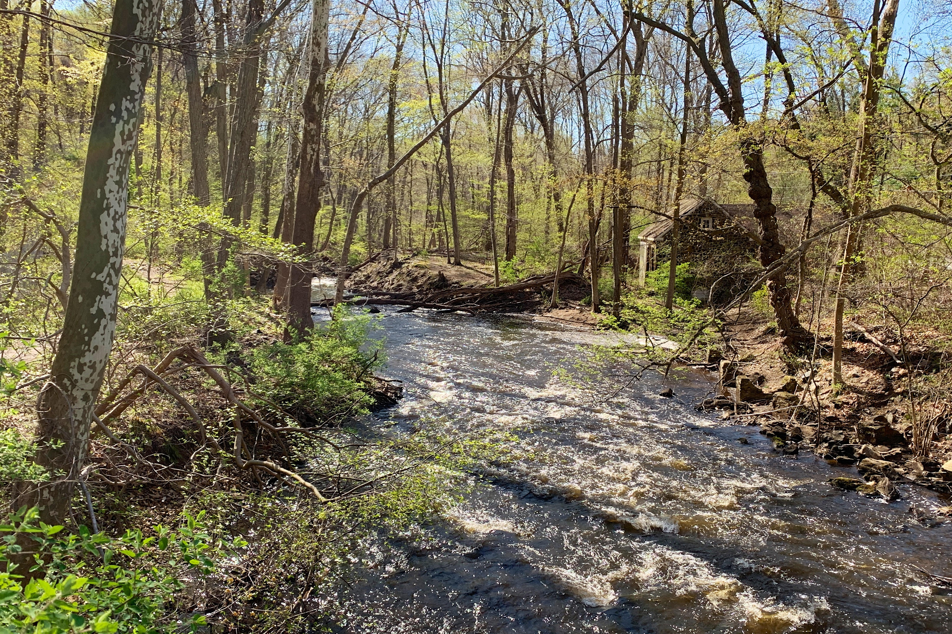 View of the Black River in the Black River County Park in Morris County, New Jersey. The Black River Trail, part of the Patriots' Path is on the left.